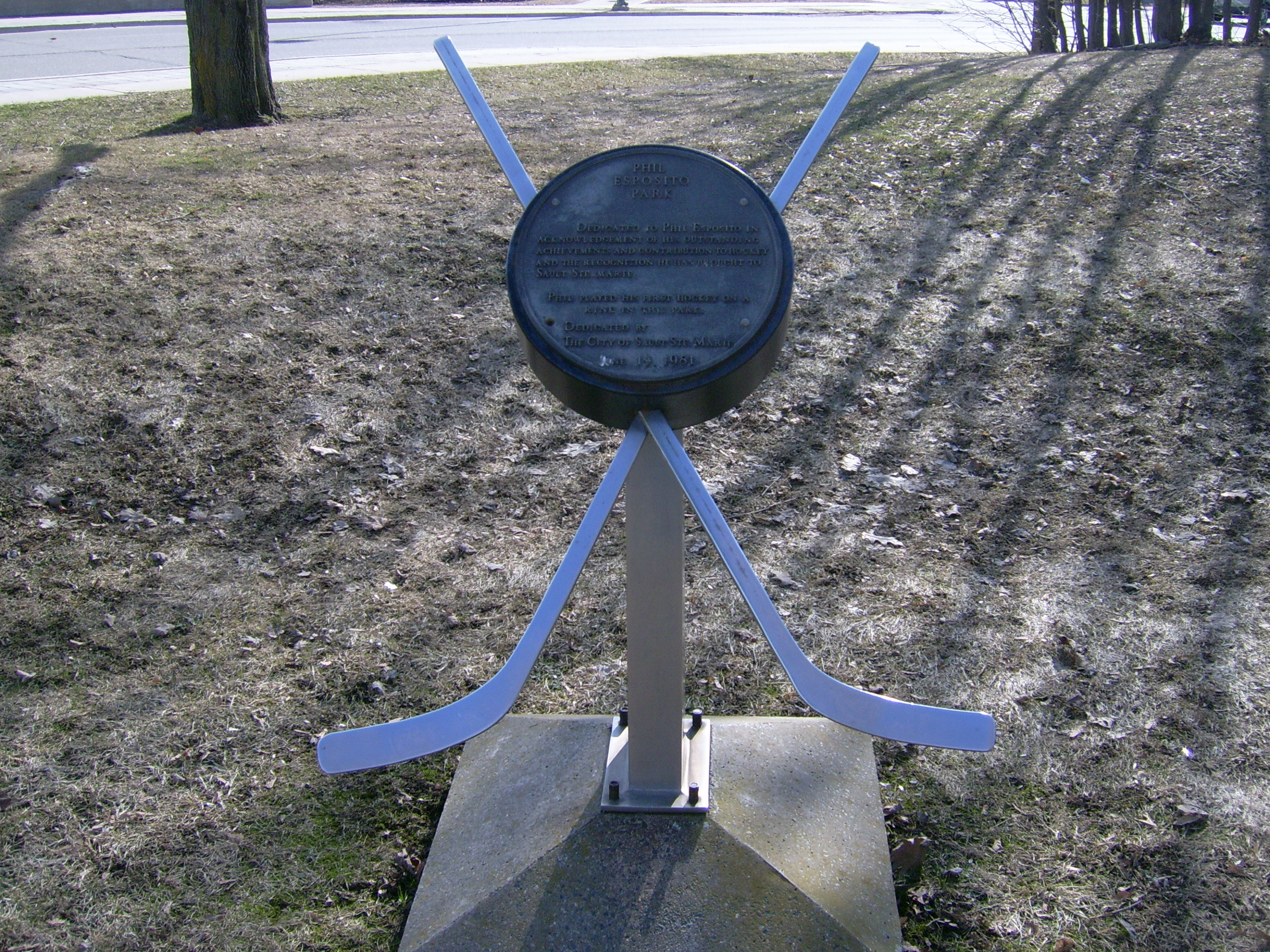 Phil Esposito Park, Sault Ste. Marie, Ontario. Phil Esposito Park Dedicated to Phil Esposito in acknowledgement of his outstanding achievements and contributions to hockey and the recognition he has brought to Sault Ste. Marie. Phil played his first hockey on a rink in this park. Dedicated by The City of Sault Ste. Marie June 19, 1981